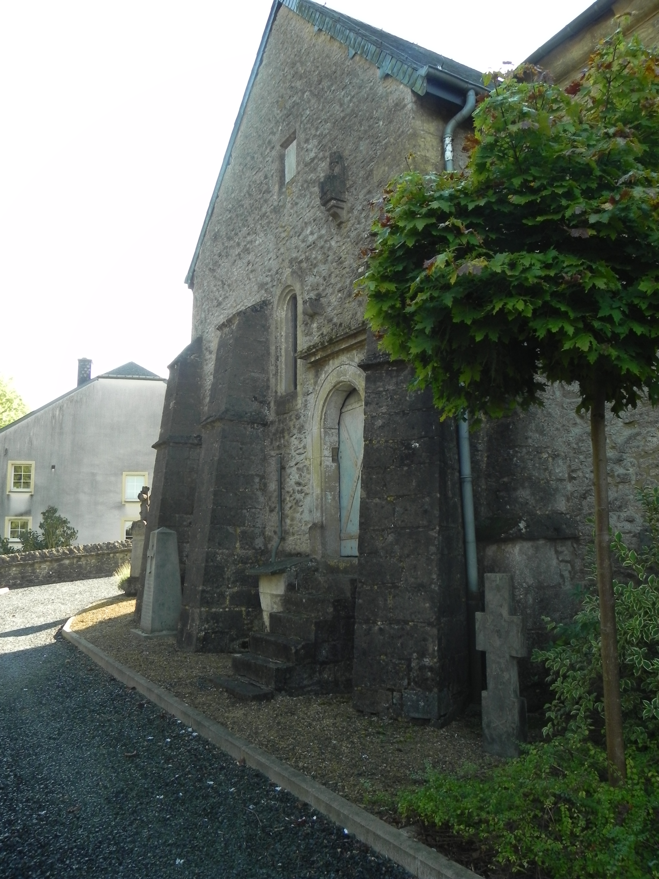 Chapelle des Seigneurs